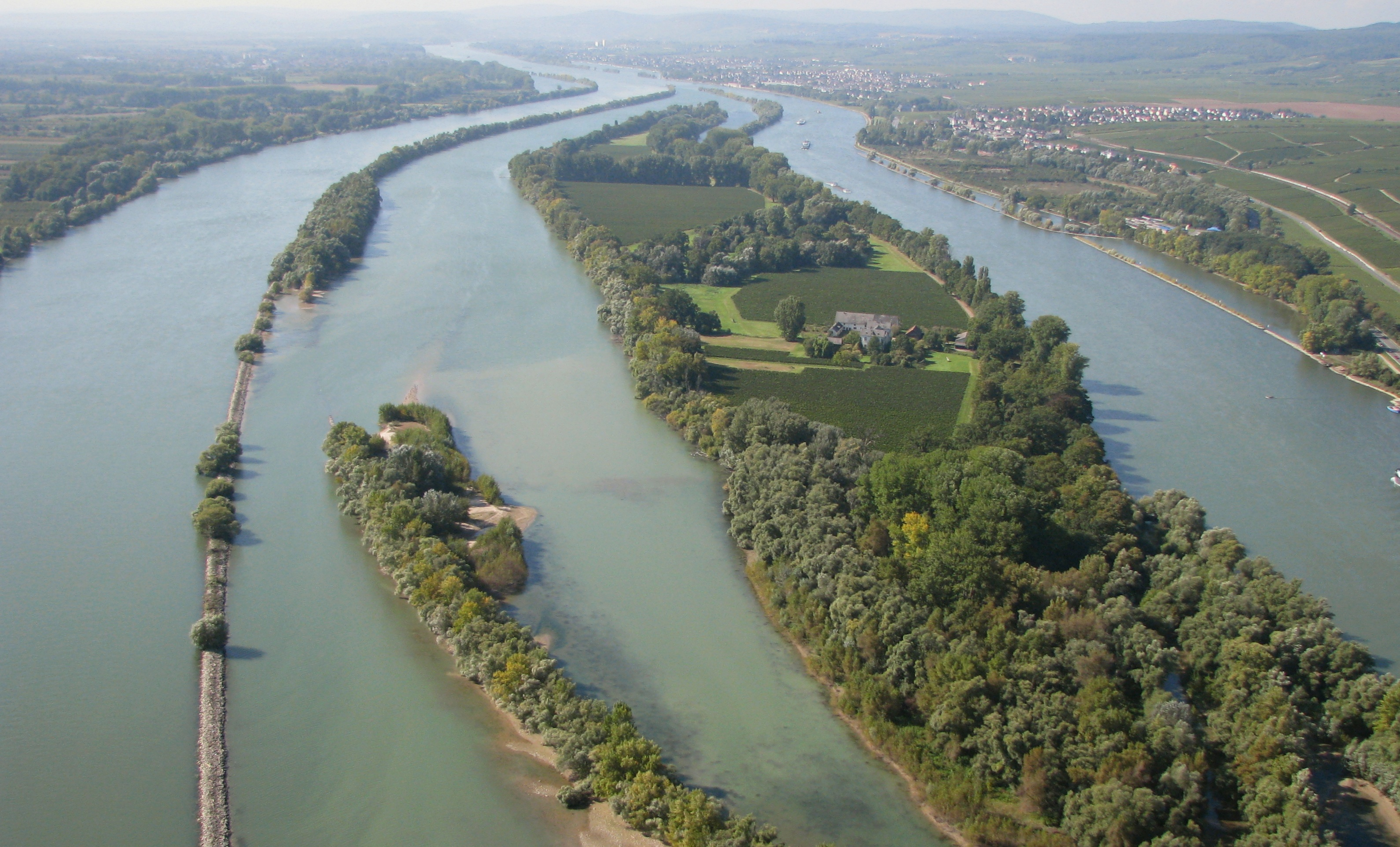 Rhine river downstream near Erbach Rheingau with island Mariannenaue Hesse (right) frontier Rhineland-Palatinate (left) - photo Wolfgang Pehlemann IMG_0274